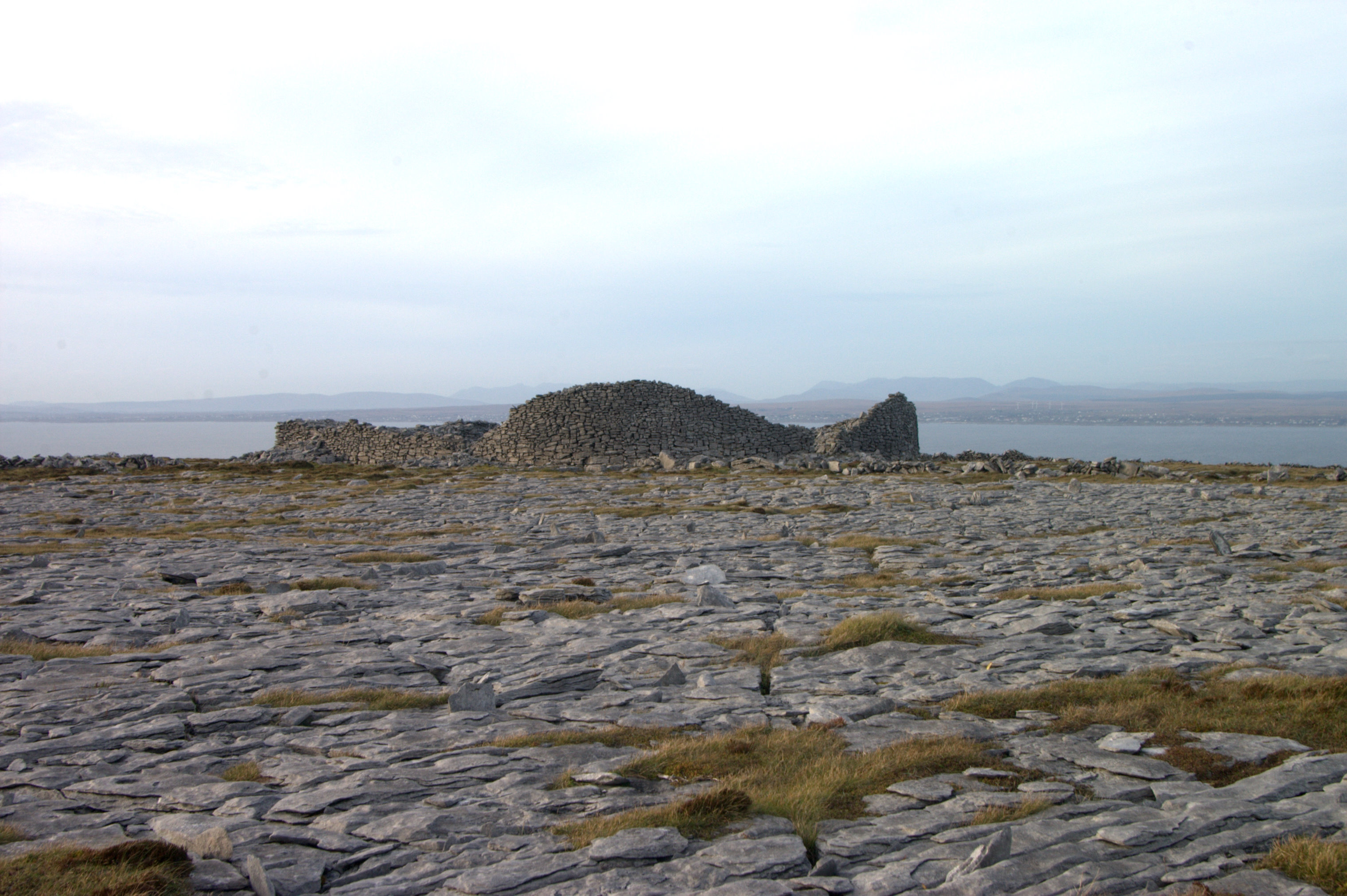 Stone ringfort (caher)onn plateau above Black Head Co Clare Ireland, Danny Burke